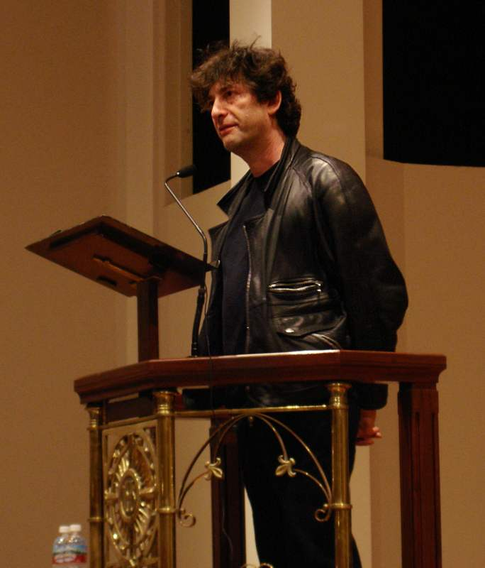 Neil Gaiman taking questions after reading a chapter from Anansi Boys, on book tour in Berkeley, Sep 30, 2005. We learned: - Went to google before coming here (cf. Terry Pratchett, who did the same thing. Does google have some sort of literary booking agent?) Home-made "Neil #1" plaque from google for being the first hit for "Neil". - Interviewed by Michael Chabon yesterday. - He's started writing in pen. Because it's not as real as on the computer. Used to be that the computer was not real compared to a typewriter, but that's worn off. - Often starts book elsewhere, finishes them at home - Used to be a journalist. There's writer's block, but there's no journalist's block. (Again, like Pratchett.) - Why President Taft? (A detail from Anansi Boys.) Because all people remember about him that he's fat. Read pornographic biography of Taft in a roommate's copy of National Lampoon. - McKean made MirrorMask using animators fresh out of school and giving them more responsibility than they'd normally get. Didn't originally planned for it to be this big; but people at Sundance liked it. Go see it to make momentum. - As a teenager, wanted to be a science fiction writer, the next Larry Niven - No plans for Good Omens II. By now, he and Pratchett are so famous that big business interests would be involved. - Plan for Neverwhere sequel called "Seven Sisters". Sequels are okay, but prefers to do new things. - Anansi Boys started as a novella, but editor (Jennifer II) point out that it's a novel.